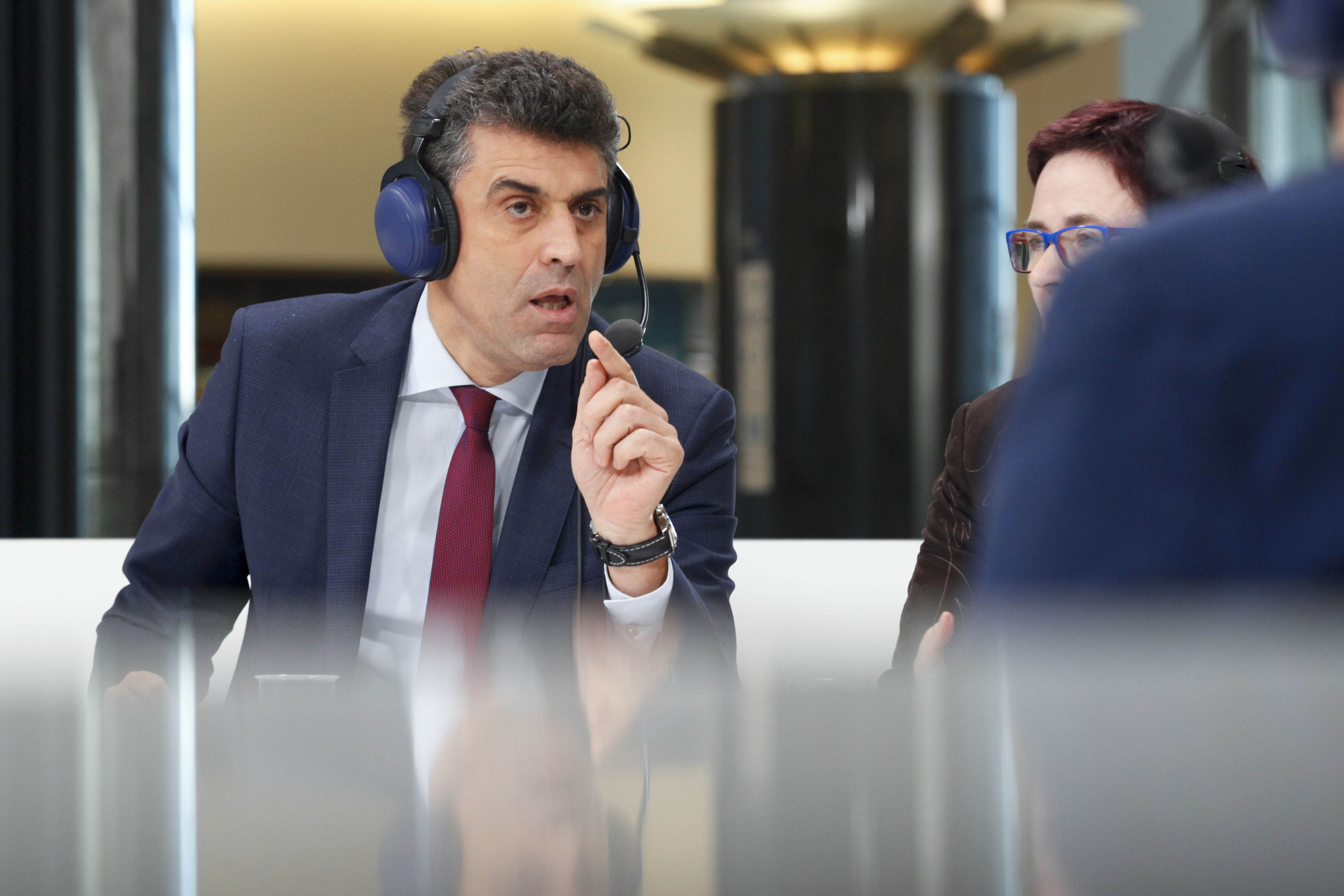 In May, the European Parliament approved new powers for Europol. Are these powers enough to boost the efficient fight against terrorism? How can equilibrium be reached between preventing terrorism, and fighting the phenomenon with fair and balanced methods, while observing EU citizens' rights? Can the EU really avoid feeding racism and xenophobia; and on the other hand, does the EU work to diminish radicalisation - can it remove the online propaganda? These, and other issues, formed the core of the two-panel debate first in Estonian, then in English, live from the European Parliament in Brussels. Get all the video and audio recordings as well as photos and all details at Guests: - Josef WEIDENHOLZER, MEP, Austria, Vice-Chair of the Group of the Progressive Alliance of Socialists and Democrats in the European Parliament - Birgit SIPPEL, MEP, Germany, Group of the Progressive Alliance of Socialists and Democrats in the European Parliament - Doru-Claudian FRUNZULICĂ, MEP Romania, Group of the Progressive Alliance of Socialists and Democrats in the European Parliament - Jorge BENTO SILVA, Deputy Head of Unit D2 Terrorism and radicalisation of the Directorate-General Migration and Home Affairs (DG HOME) of the European Commission